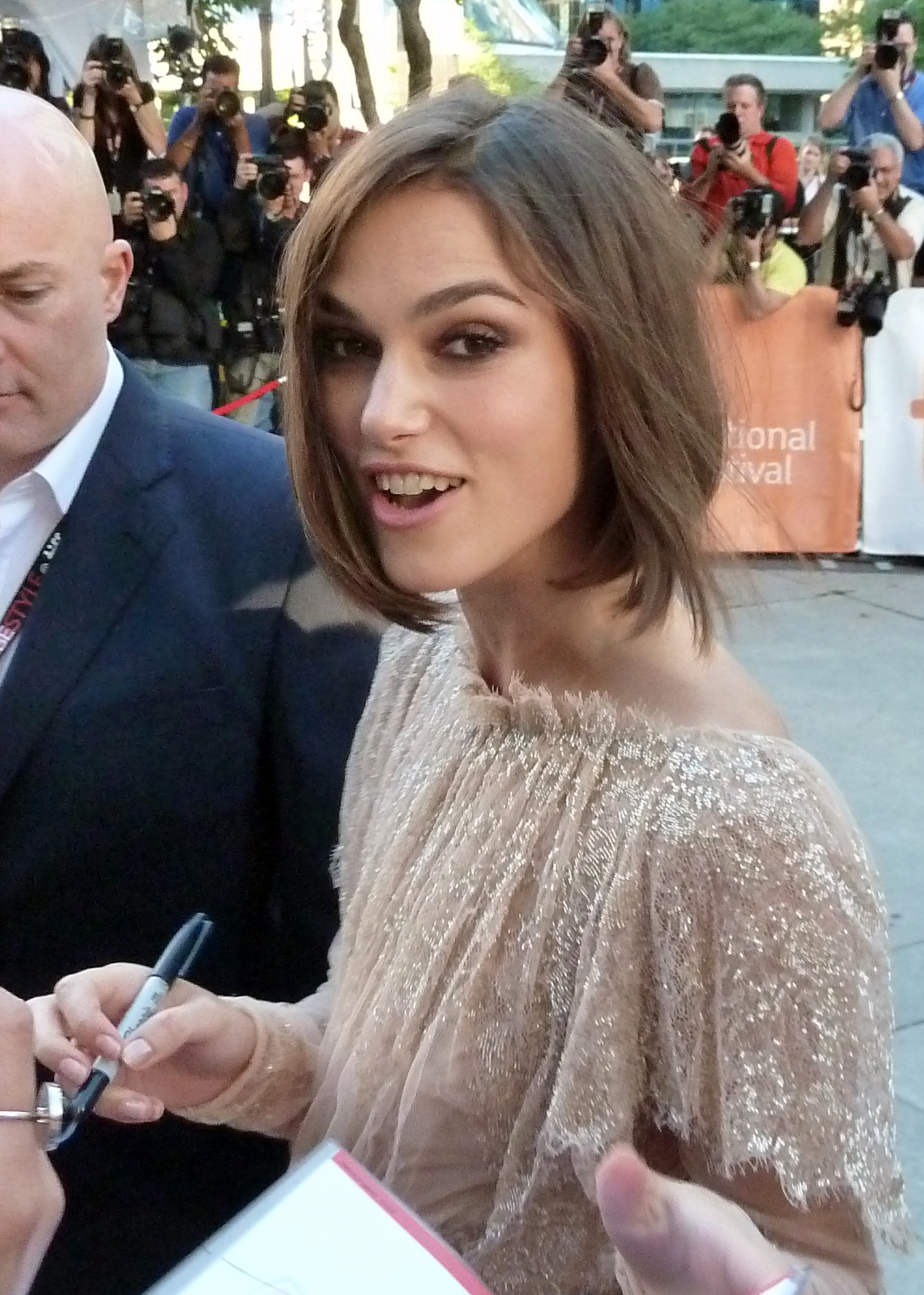 Keira Knightley at the premiere of A Dangerous Method, Toronto Film Festival 2011 Here's the aftershot.